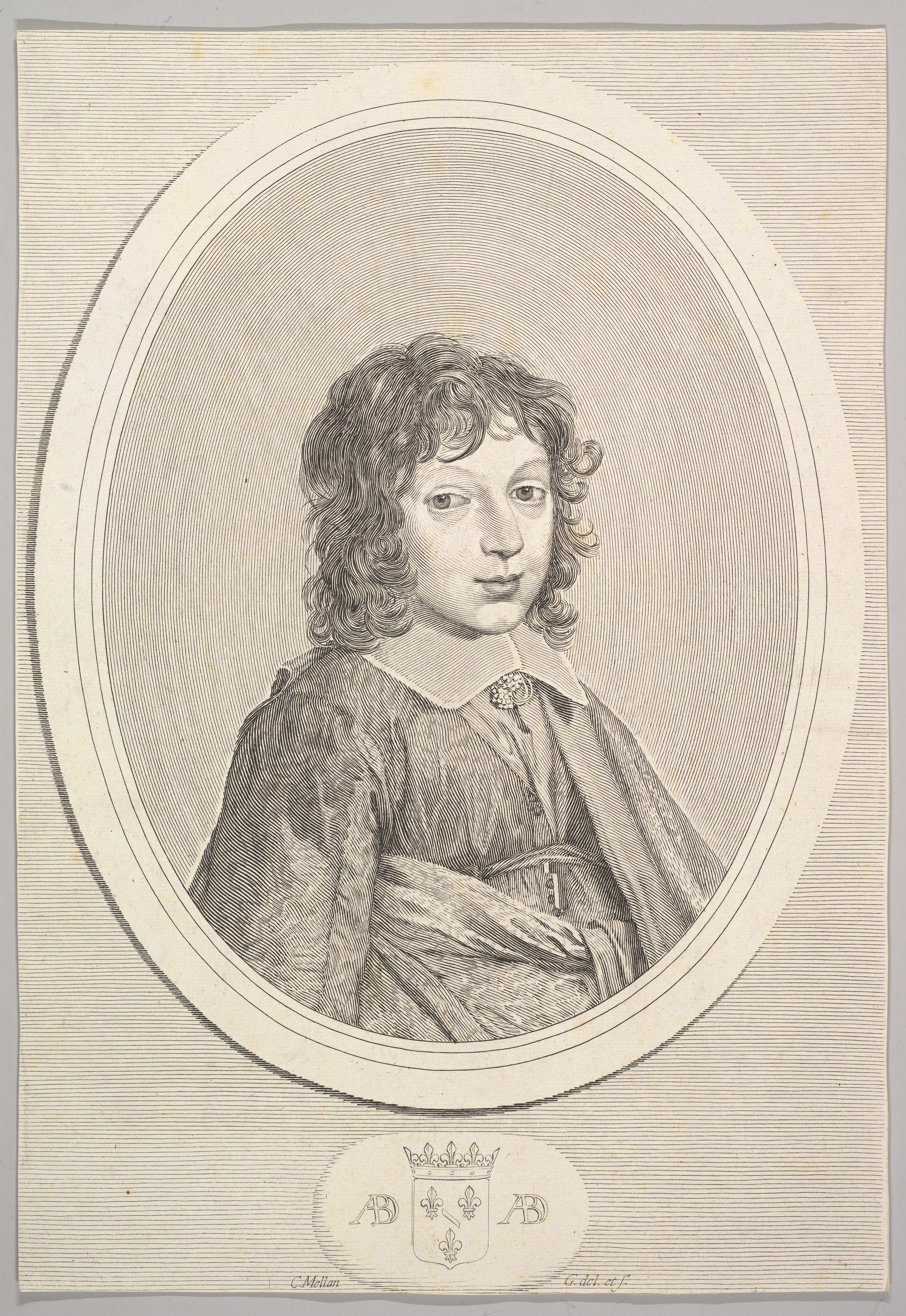 Print; Prints